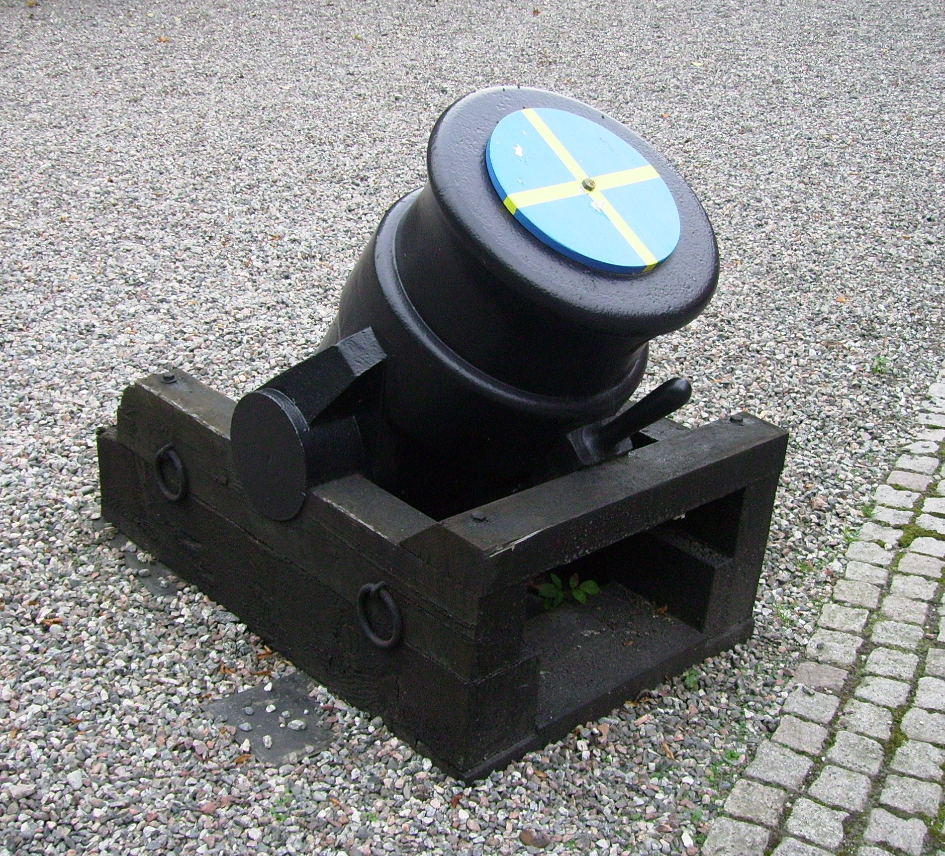 Picture of canon in Åkers styckebruk in Södermanland